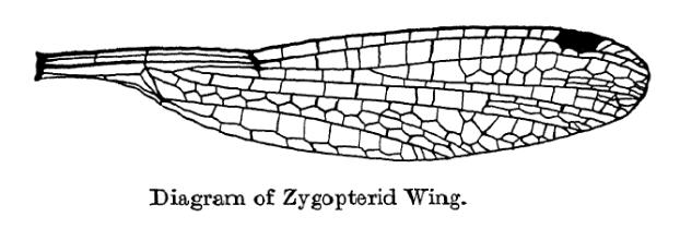 Wing of Zygoptera, neuroptera